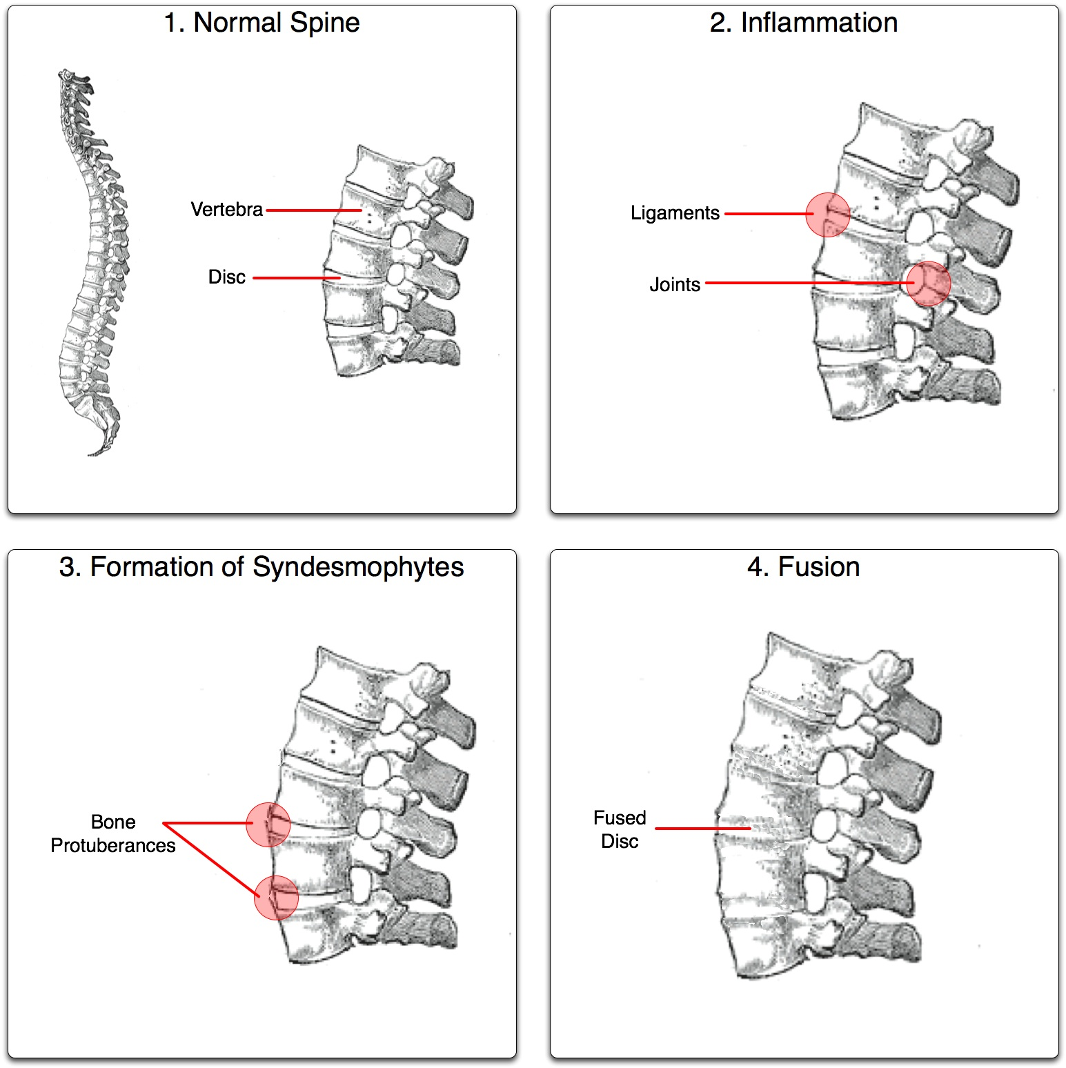 The ankylosis process, made by Senseiwa, with an image of the spine from Gray's Anatomy